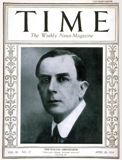 TIME Magazine Cover Featuring Gelasio Caetani (28 Apr 1924)